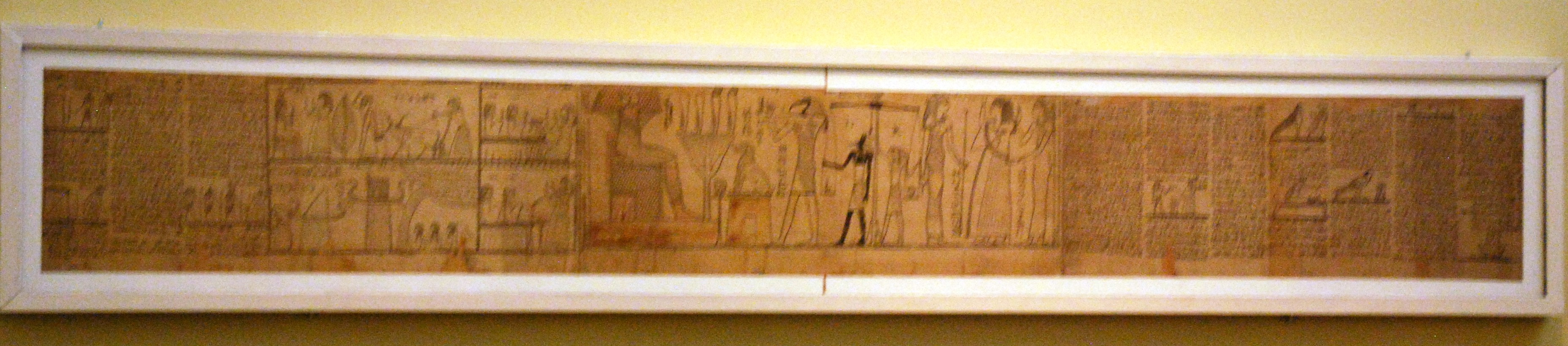 Papyrus with the Book of the Dead of Amun singer Nehem-es-Rataui in hieratic letters; ptolemaic, from Thebes; today in the Museum August Kestner in Hanover. Database link